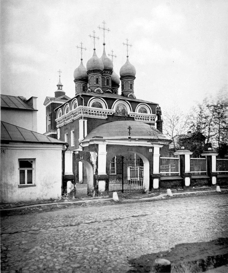 Church of Intercession in Goliki, Moscow.